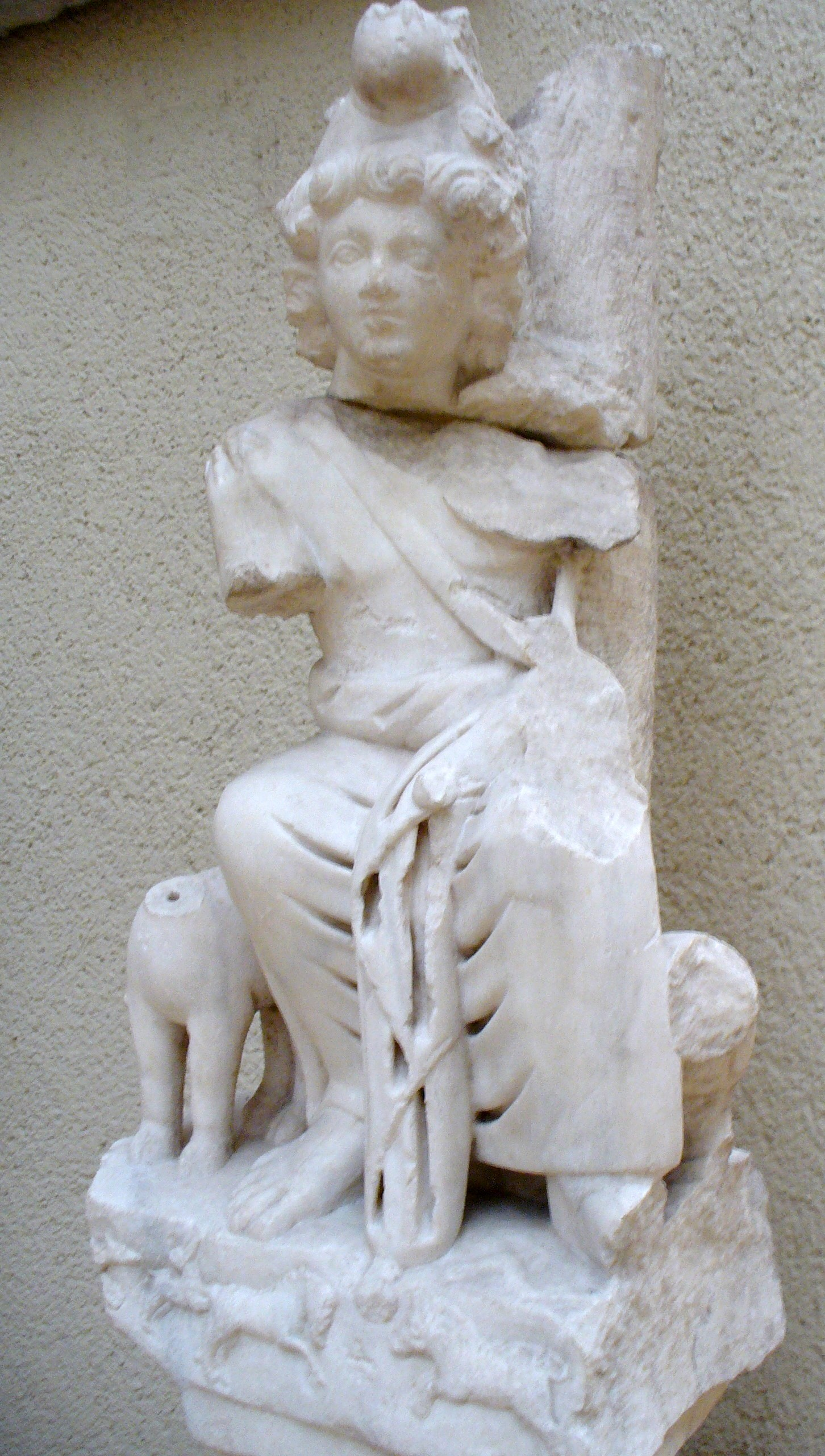 A statue of Orpheus from Byzantium or its environs. Now at the İstanbul Archaeological Museum. QuartierLatin1968 17:02, 6 December 2006 (UTC)